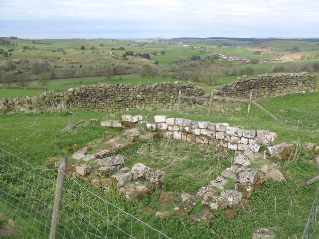 Carvoran (Magna) Roman Fort - tower at northwest corner